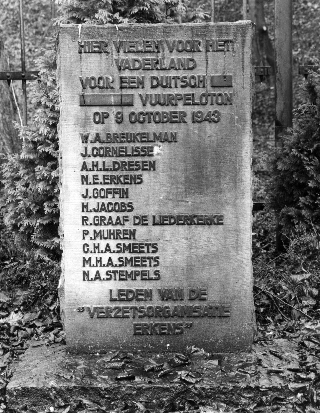 Memorial stone with the names of executed members of the Erkens group on the execution site at the Fort Rijnauwen near Bunnik, Netherlands